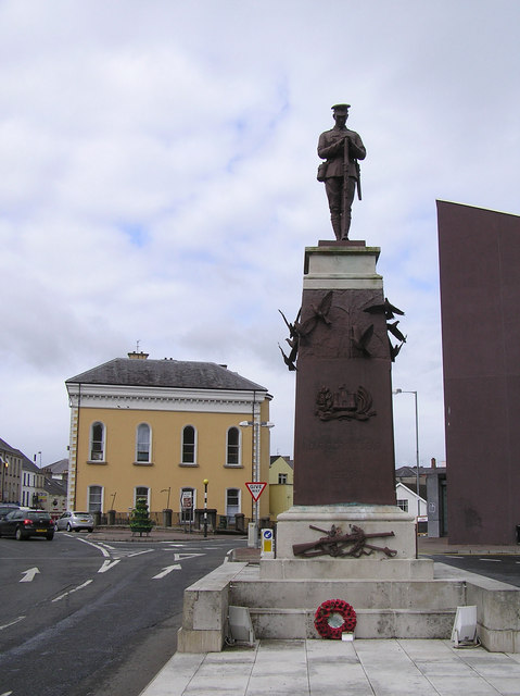 War Memorial, Enniskillen In the background is the former Orange Hall